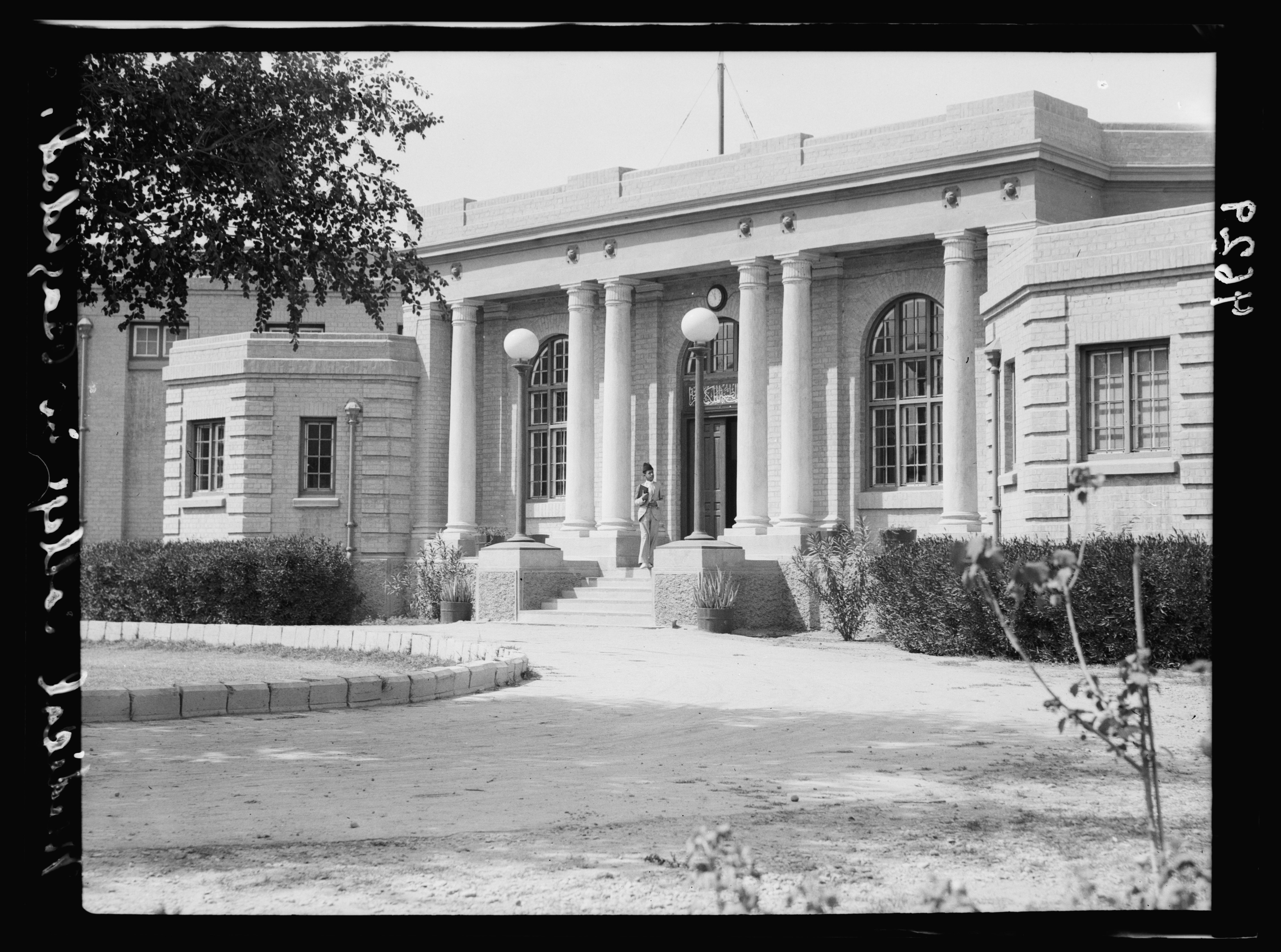 Title: Iraq. (Mesopotamia). Royal College of Medicine of Iraq. Baghdad. Medical College, main entrance Abstract/medium: G. Eric and Edith Matson Photograph Collection Physical description: 1 negative